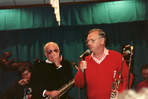 Fraser MacPherson, Rob McConnell 1989; Otter Crest, Oregon. May 1989